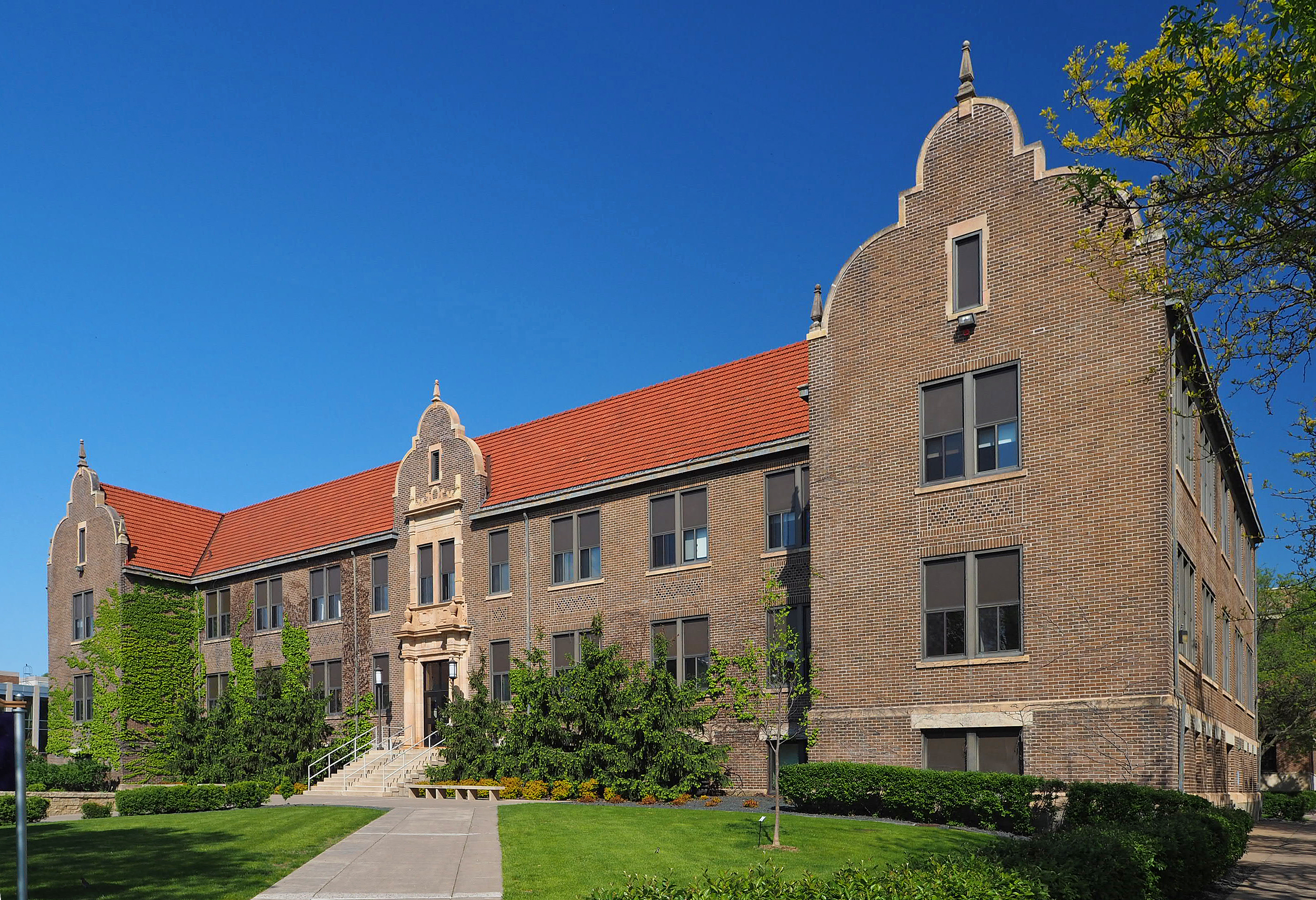 Phelps Hall, Winona State University, Winona, Minnesota, USA. Viewed from the southwest.